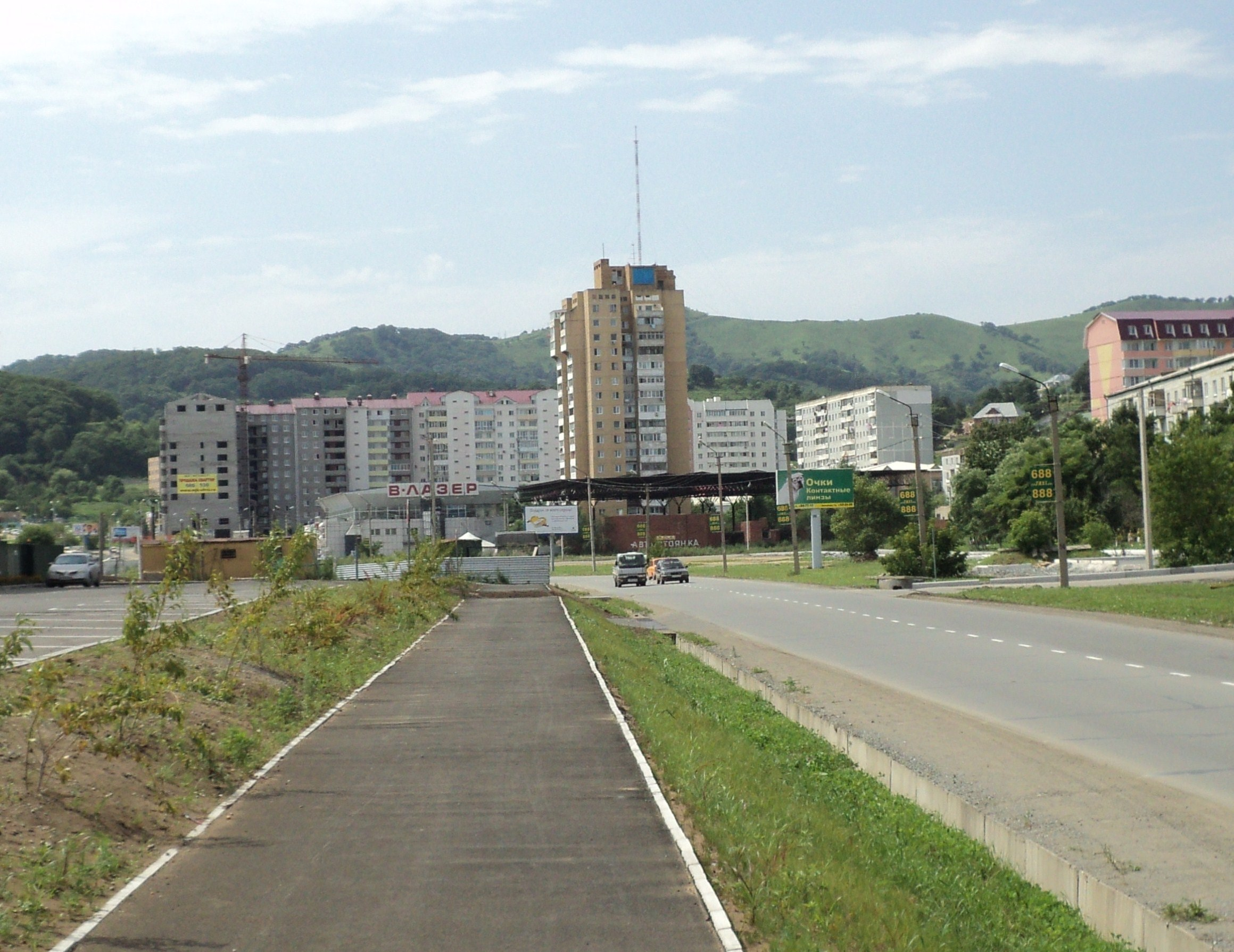 Avenue in Nakhodka City